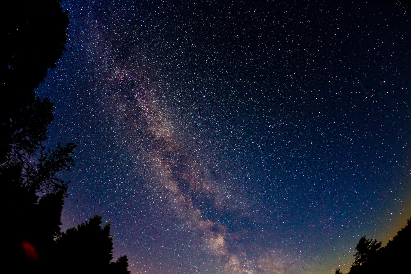 Milky Way taken in Sankt Andreasberg from Utz Schmidko, Harzsternwarte